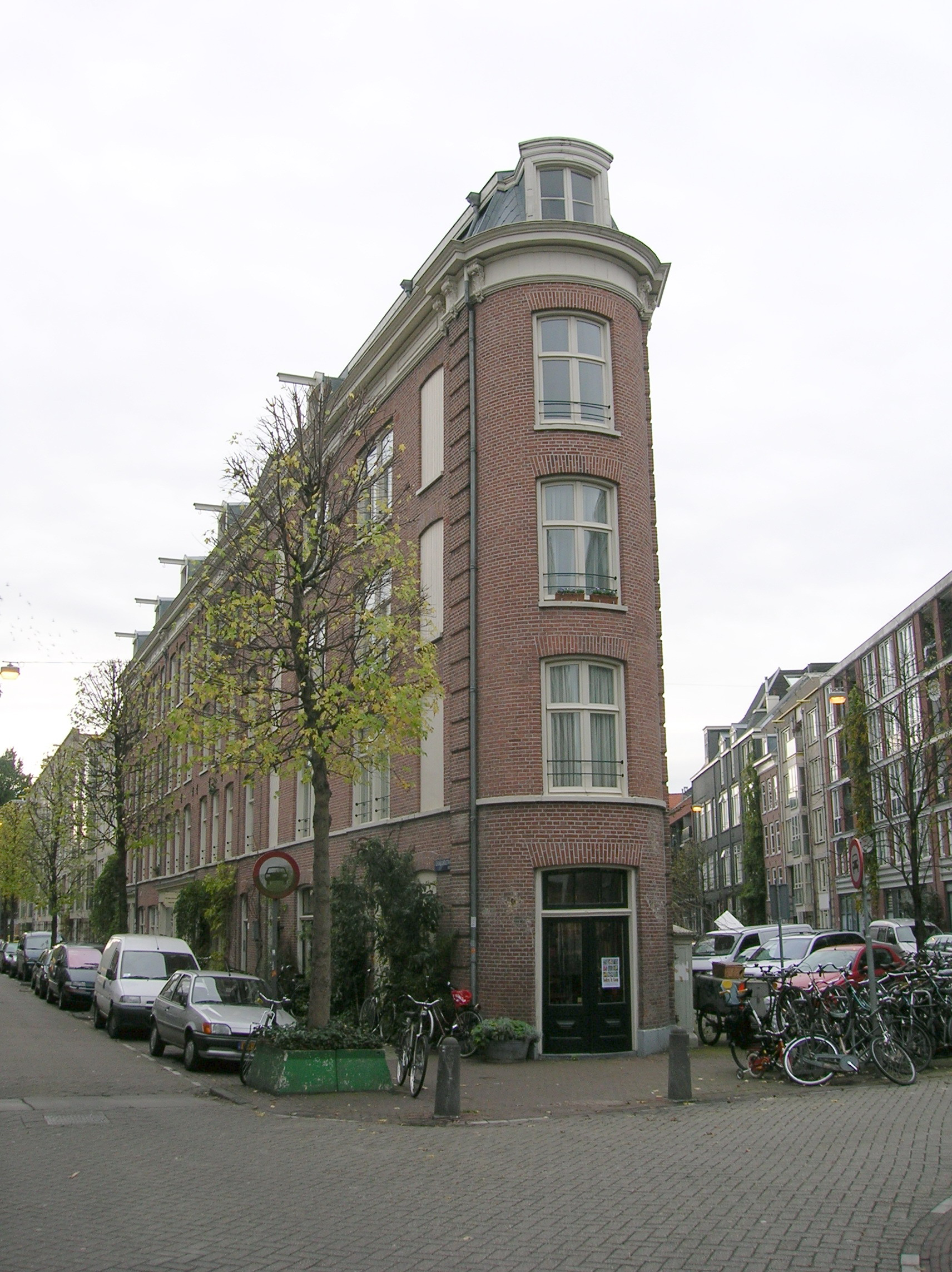 Cornerhouse Gerard Doustraat en Quellijnstraat (Amsterdam, the Netherlands). Picture taken on the 22nd of november 2005 by SanderK.